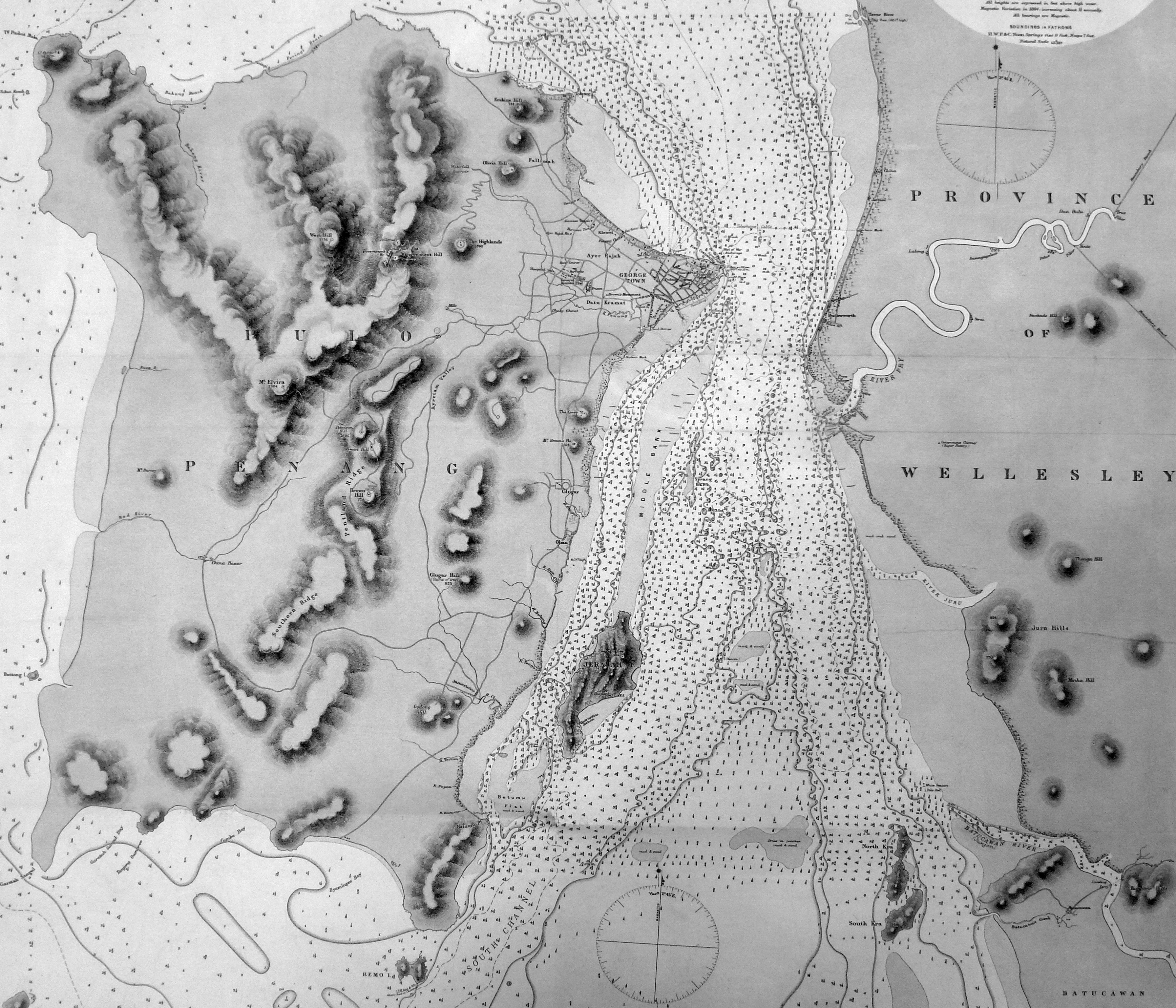 Extract showing Penang Island and part of Province Wellesley, of the map labelled MALACCA STRAIT PULO PENANG PENANG HARBOUR Surveyed by Commander the Hon. Foley C. P. Vereker, R. N., assisted by Lieut. C. G. Frederick, A. Balfour, H. Belam, H. Douglas, and H. Evans, R. N., H. M. S. Magpie, 1884. ...